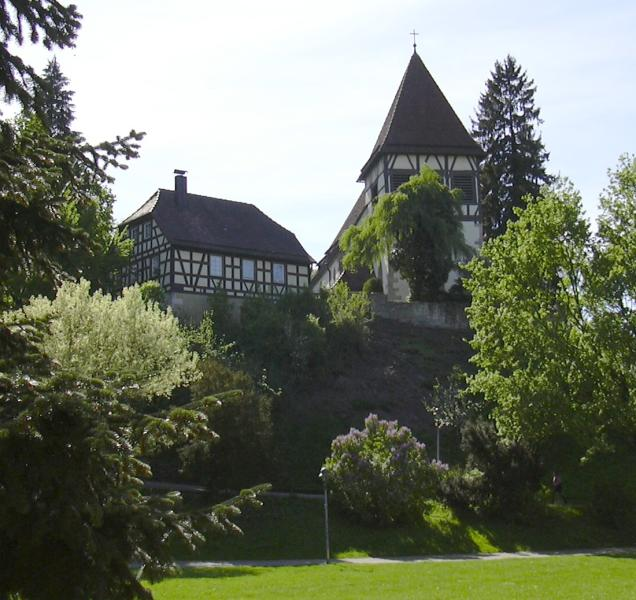 Church of St. Walterich in Murrhardt, Germany